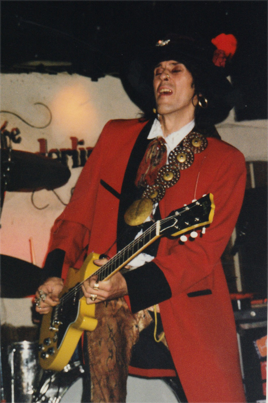 Andy McCoy - September 12, 2000 The Borderline, London